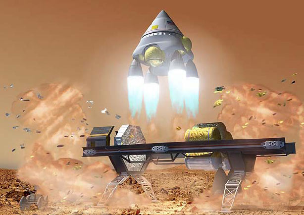 Manned mission to Mars : Ascent stage (NASA Human Exploration of Mars Design Reference Architecture 5.0) fev 2009